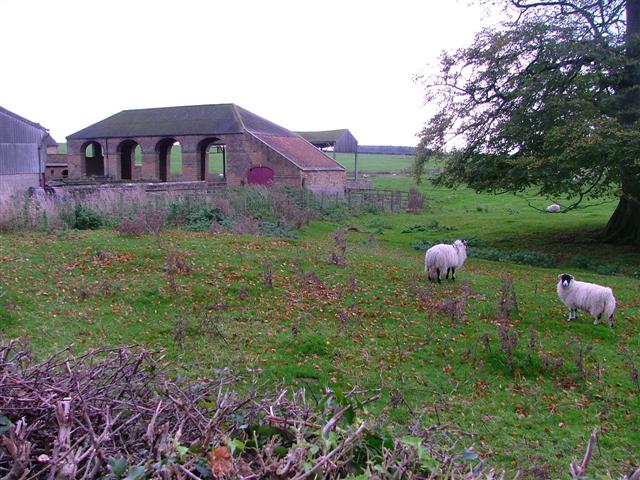 Barn at Castle Farm. Distinctive farms buildings taken in early morning light.